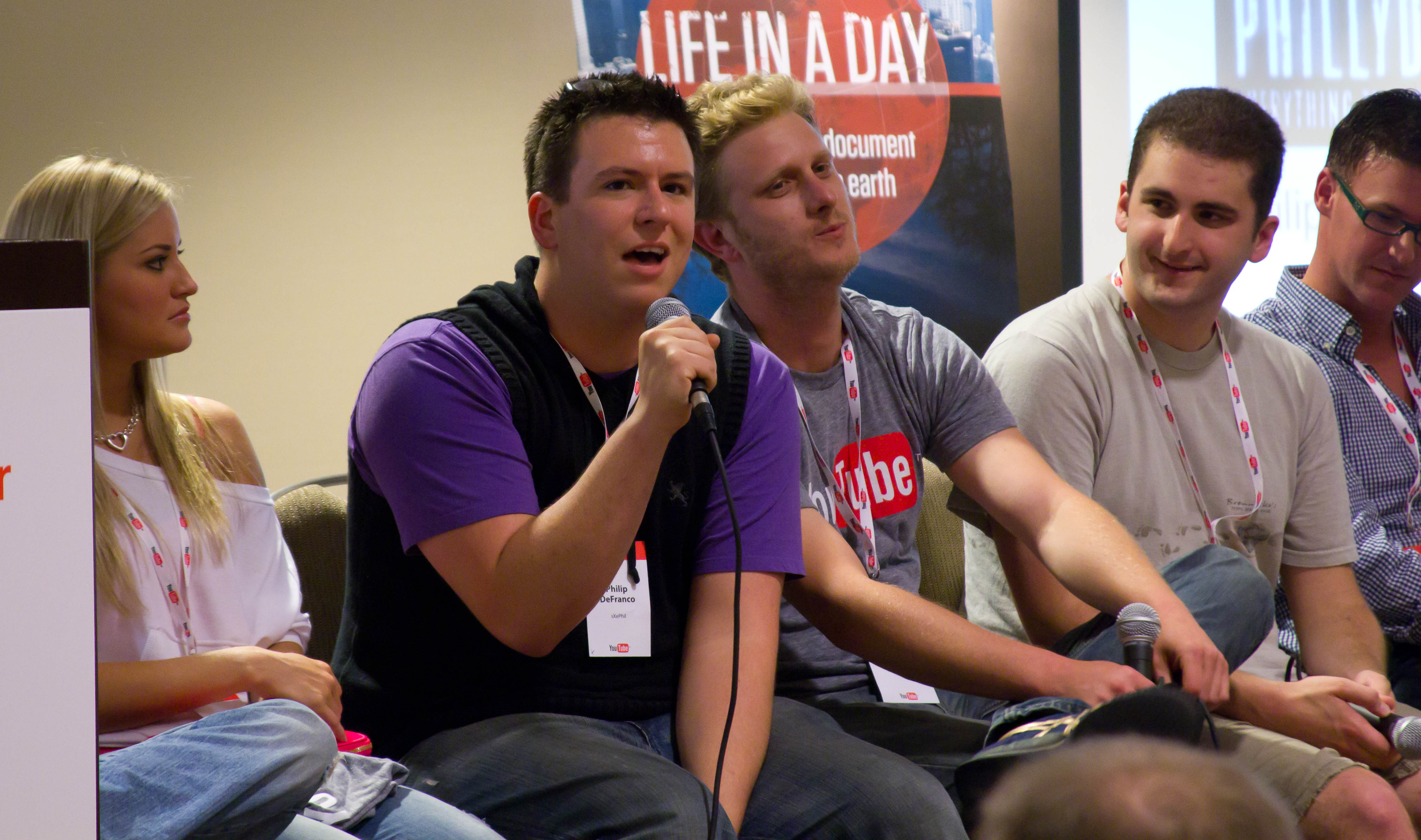 Feel free to use this image just link to Michael Buckley Philip DeFranco What the Buck WillofDC iJustine sxepil vidcon vidcon2010 youtube